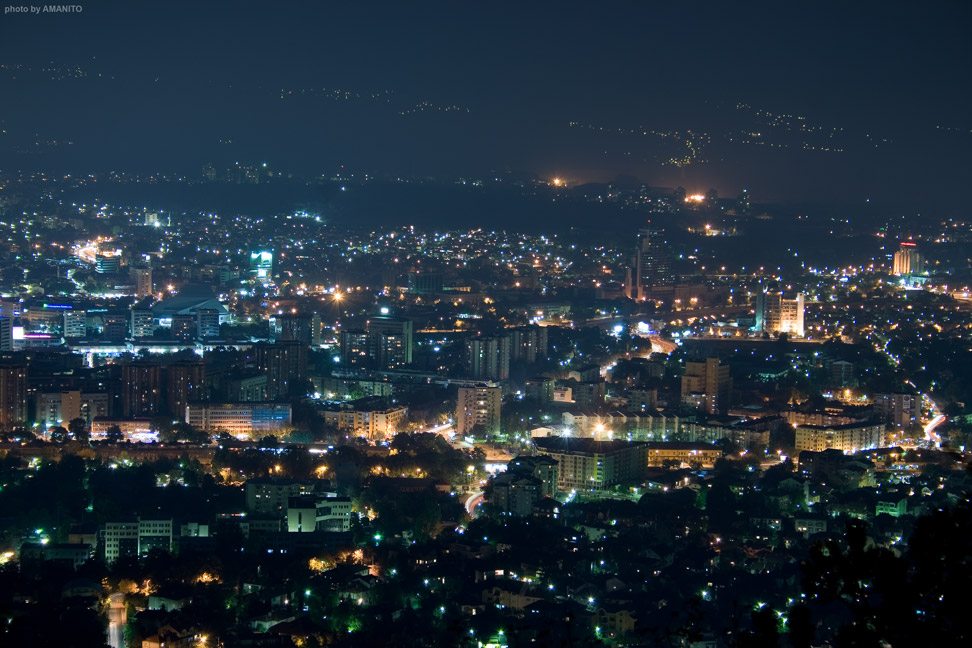 A night shot of Skopje, Republic of Macedonia.